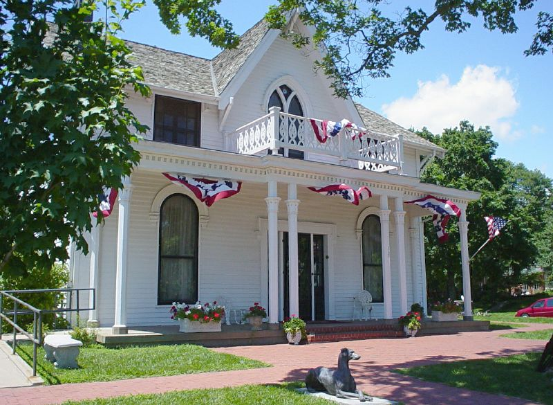 Aviation pioneer Amelia Earhart was born in this house - now a museum - in Atchison, Kansas, USA.